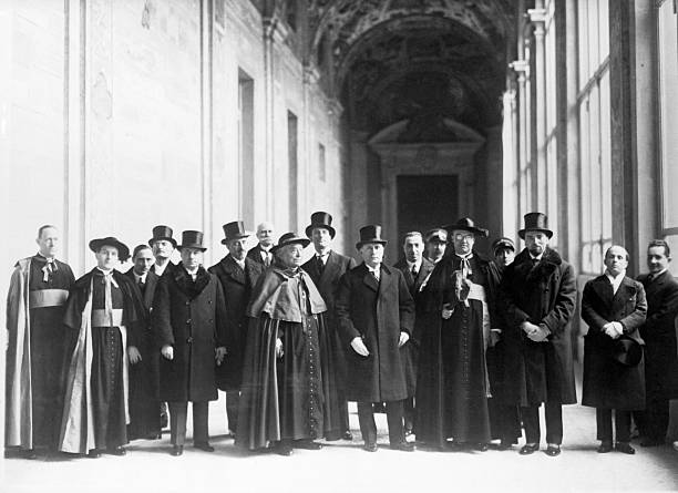 2/20/1929-Rome, Italy- Cardinal 2/20/1929-Rome, Italy- Cardinal Gaspari and Premier Mussolini are shown in the center of a group of Vatican and Italian government notables posing at the Lateran Palace before signing of treaty.